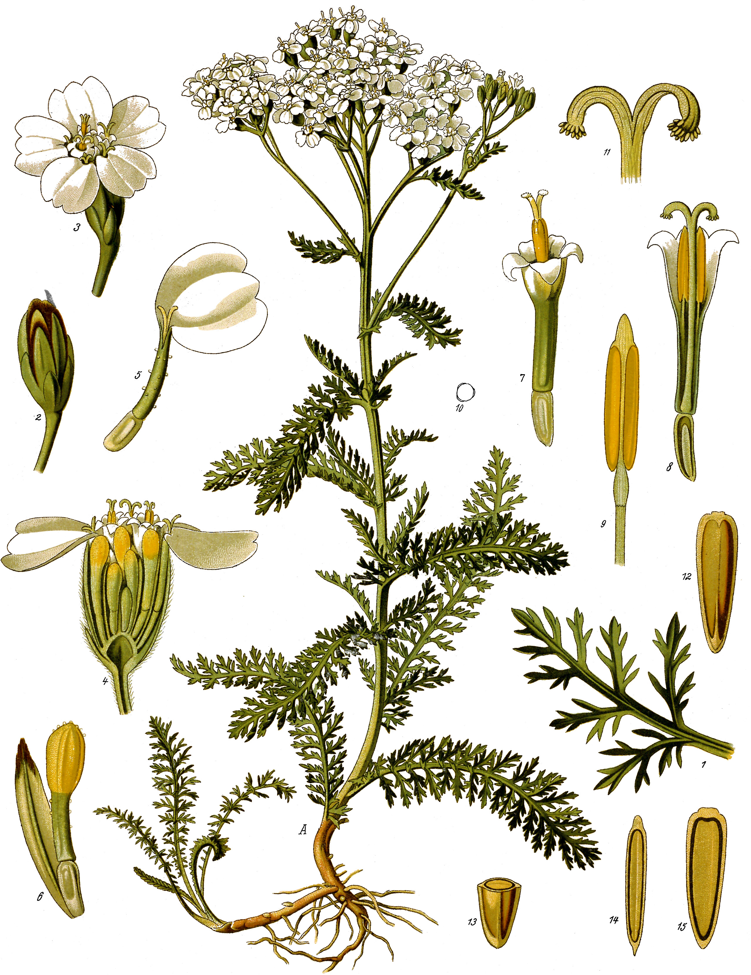 Achillea millefolium.